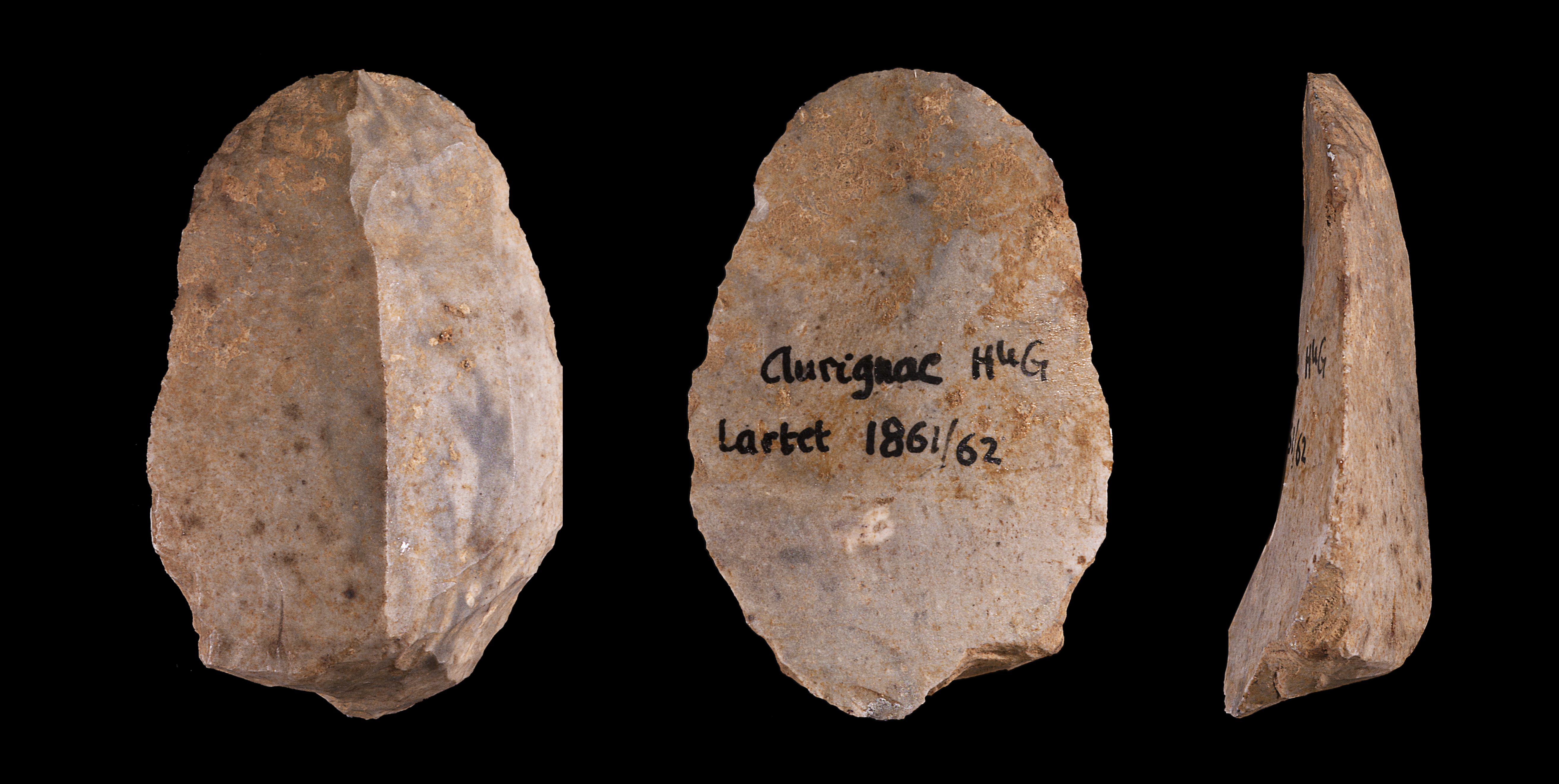 Double edged Scraper on blade - Different views of the same specimen. Stage : Aurignacian between 37 000 and 28 000 BP Locality and Collection : Aurignac cave, Haute-Garonne, France. Former collection of Édouard Lartet, 1861. Size : 4.5 × 2.9 × 1.2 cm (1.7 × 1.1 × 0.4 in)